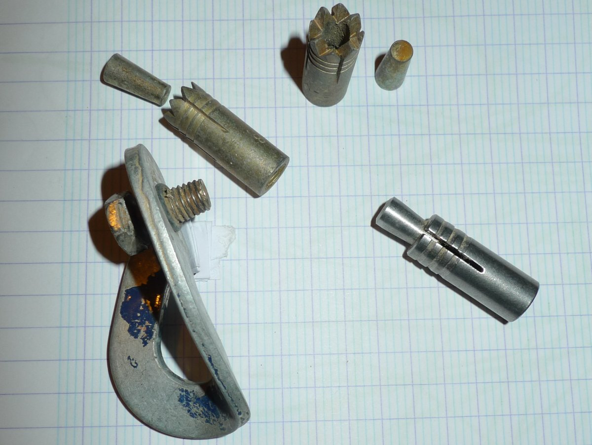 Bolts